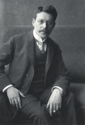 Portrait of the German photographer Theodor Hilsdorf by his brother Jacob Hilsdorf.